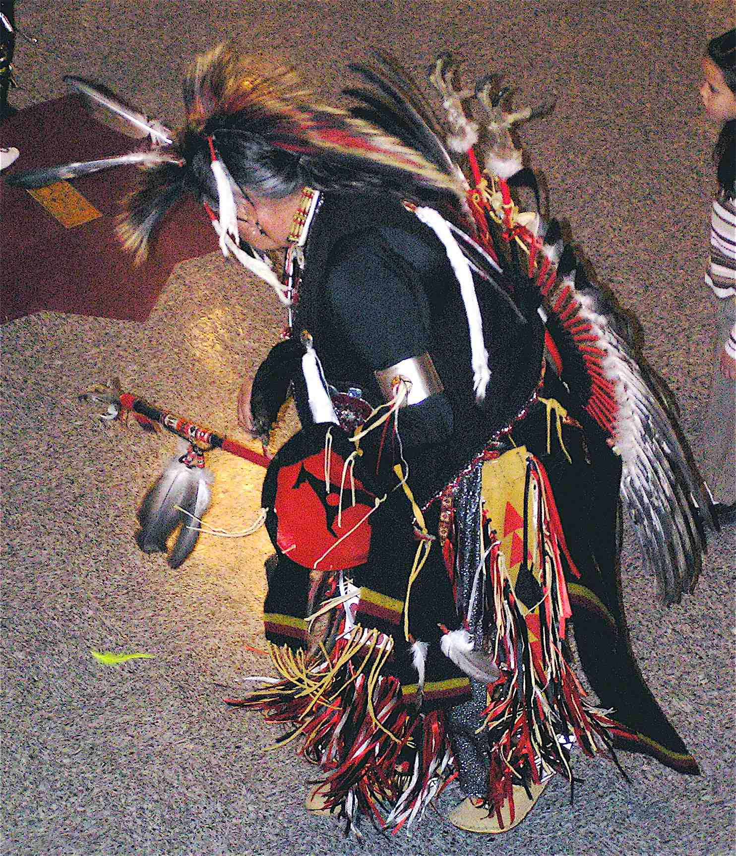 Image from Last Chance Community Pow Wow 2007, Helena, Montana